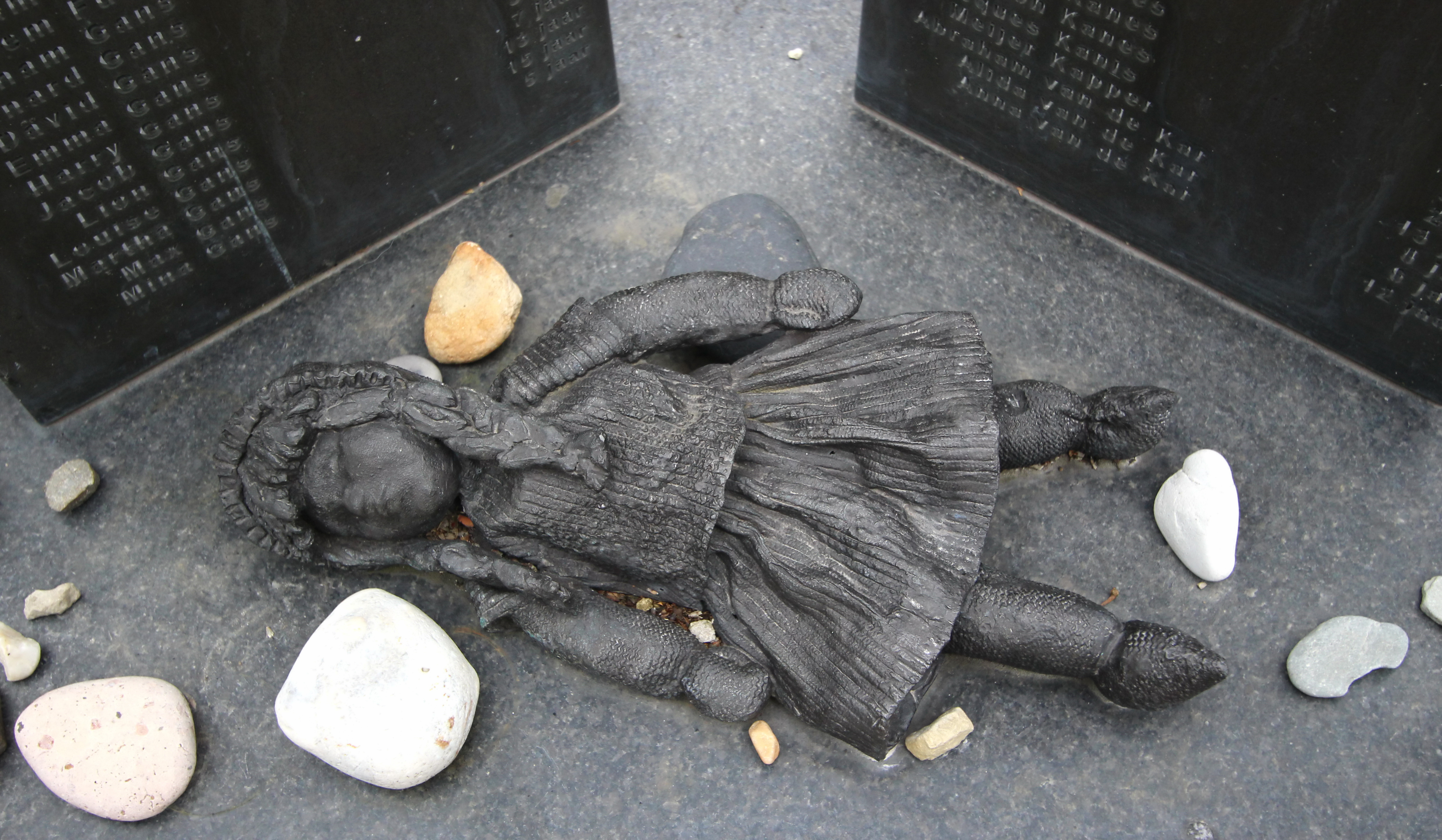 Nationaal Monument Kamp Vught